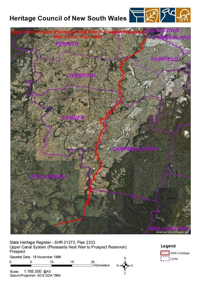 Upper Canal System: SHR Plan 2333